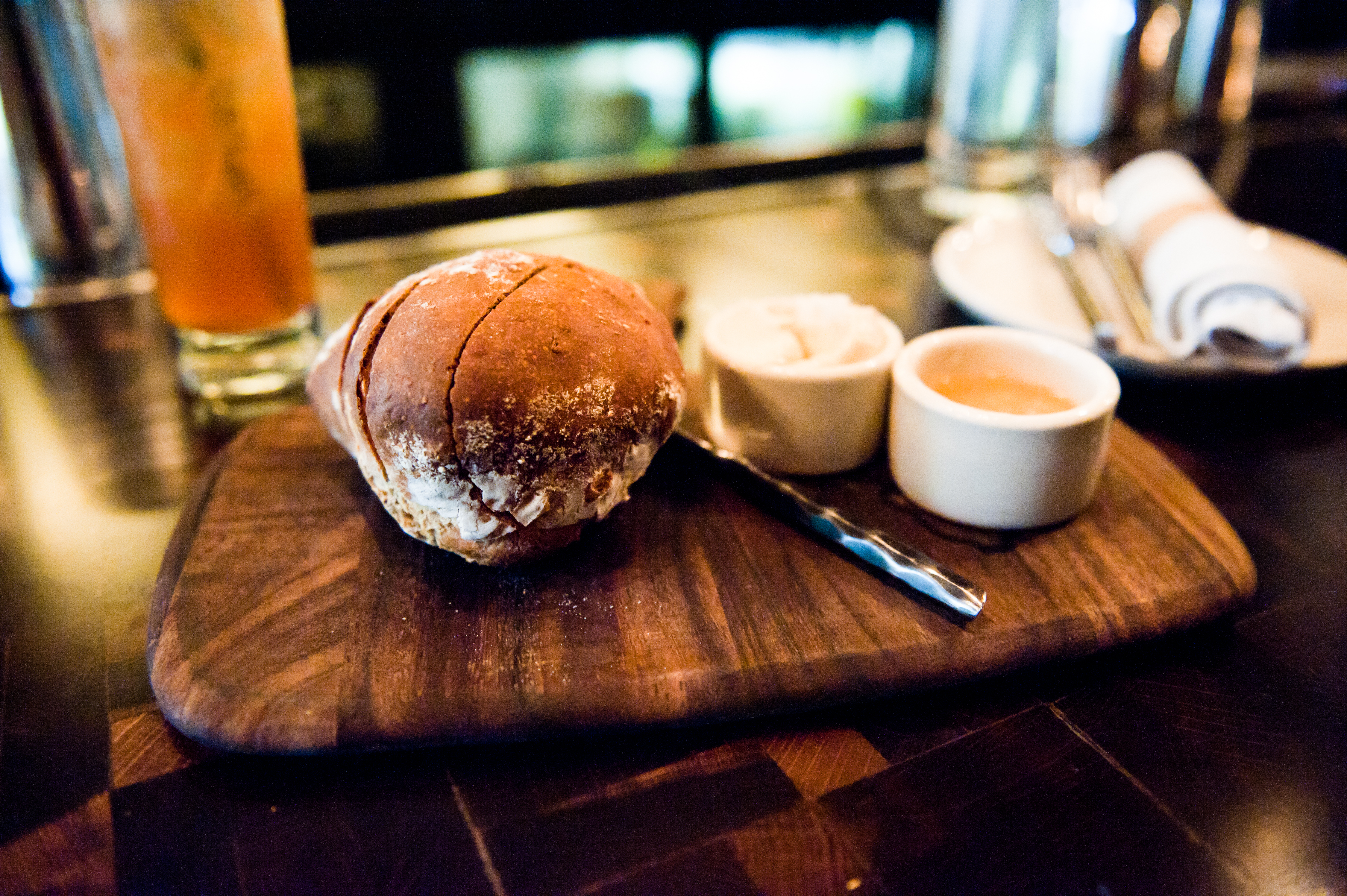 The bun with some sauce for starter of dinner at bar and restaurant